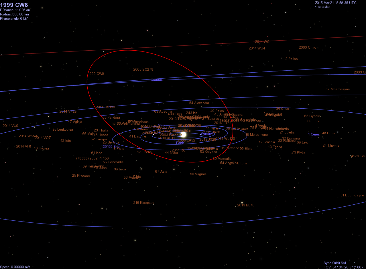 A screenshot in the program Celestia, showing the orbit of 1999 CW8 inclined to the plane of the Solar System